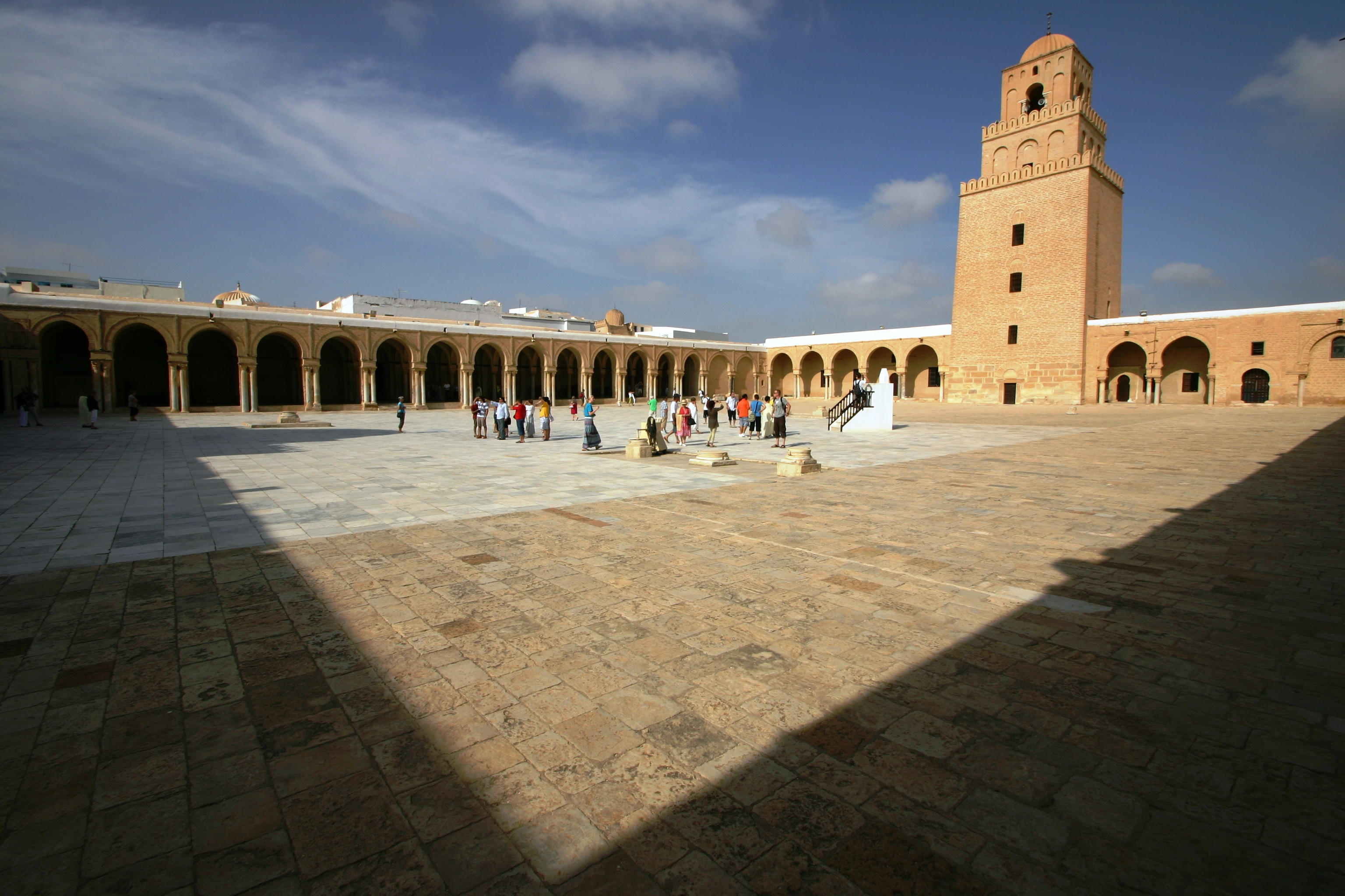 View of the courtyard of the Great Mosque of Kairouan, in Tunisia.